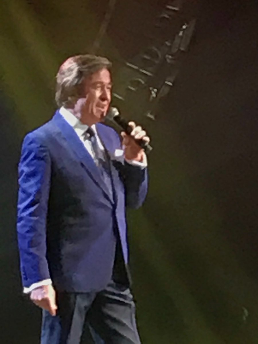 Erol Evgin in Bostancı Kültür Merkezi, Istanbul concert performance, April 15, 2017.